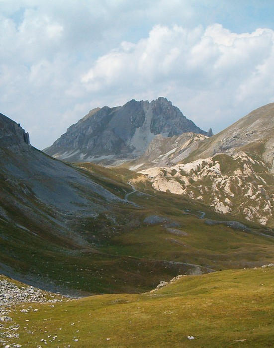 Colle di Cuneo: Colle di Valcavera (2416 m). In the background Rocca La Meia (2831 m).